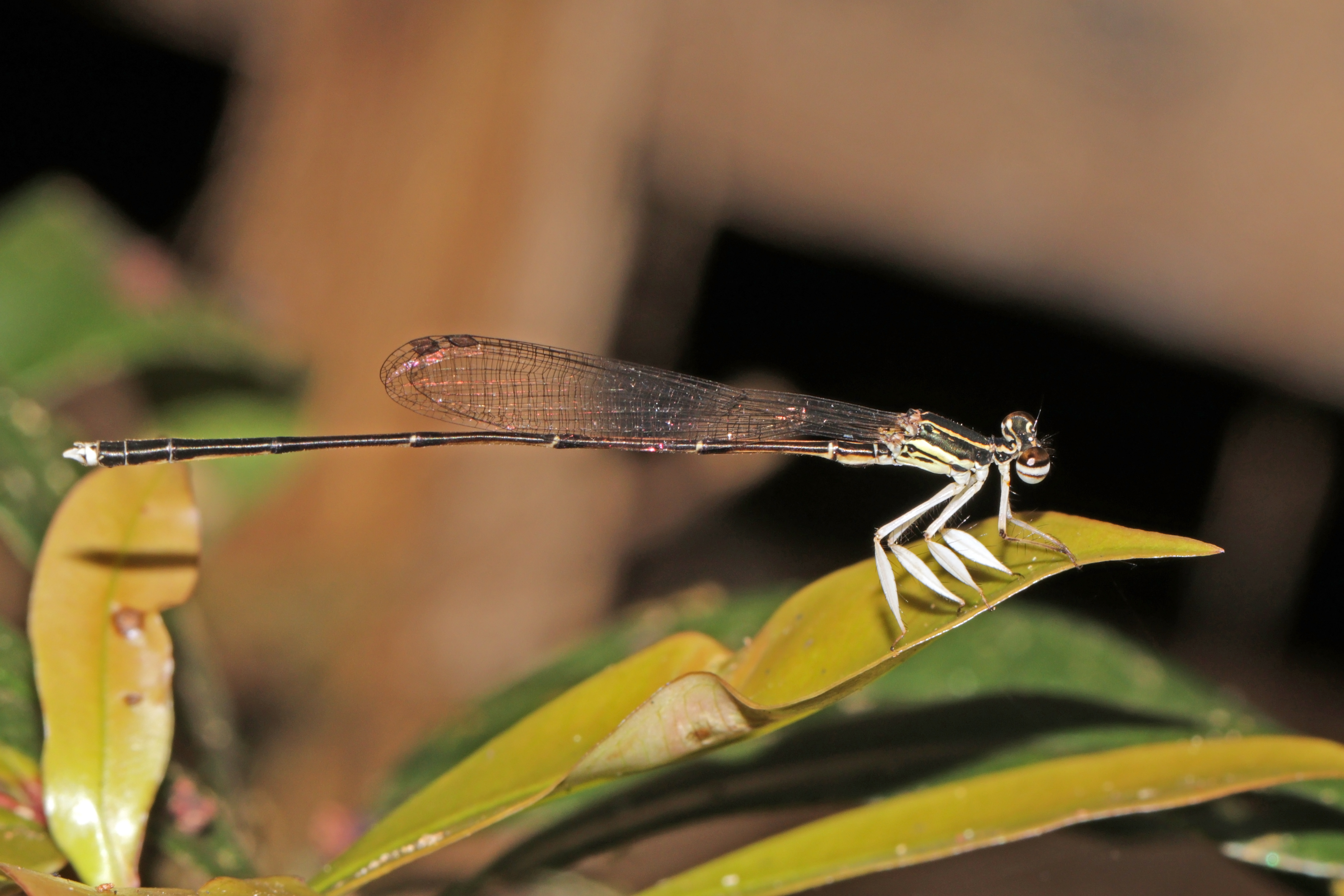 Malagasy featherleg (Proplatycnemis hova), Andasibe-Mantadia National Park, Madagascar